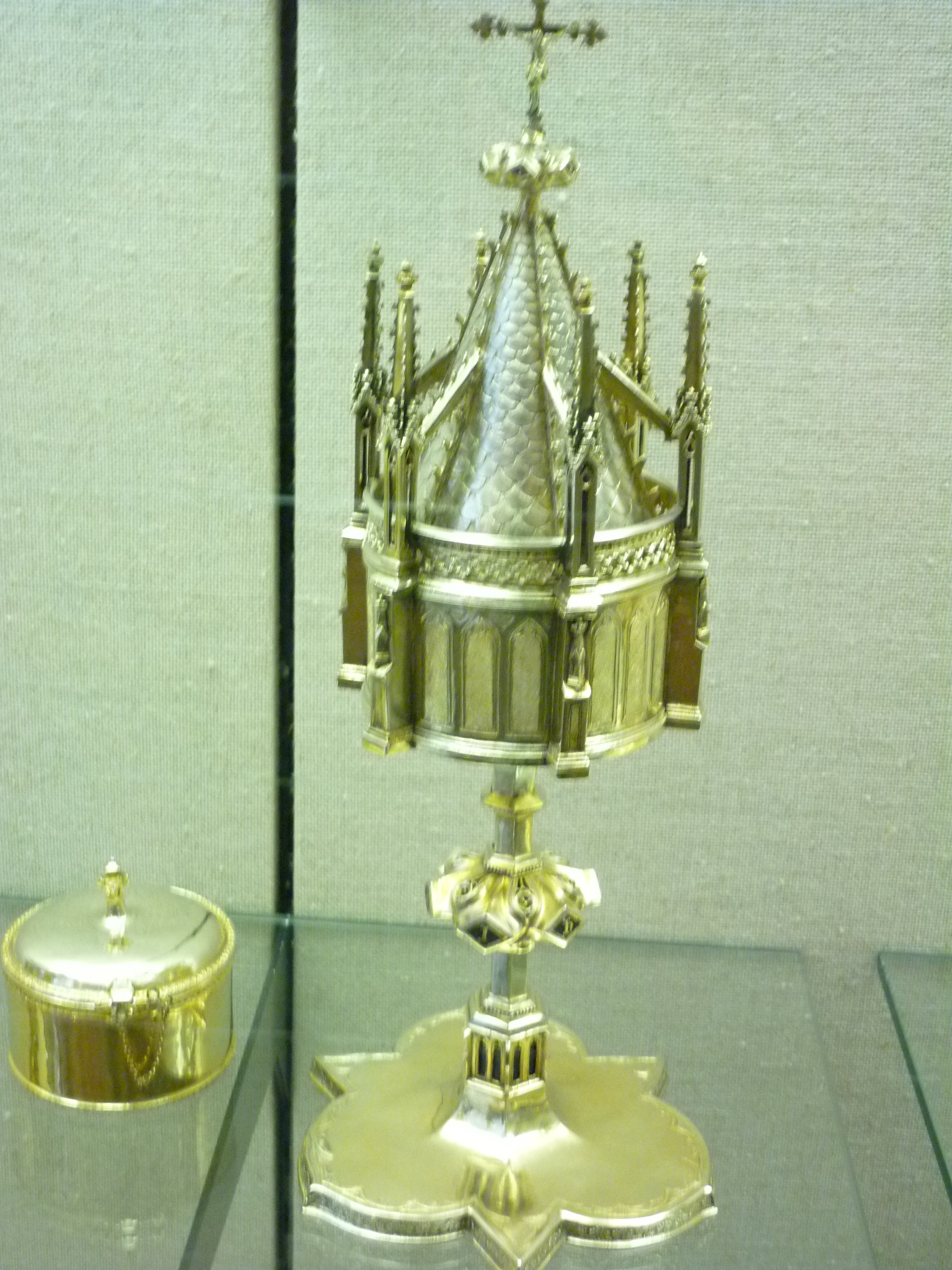 Treasury Cathedral of Trier